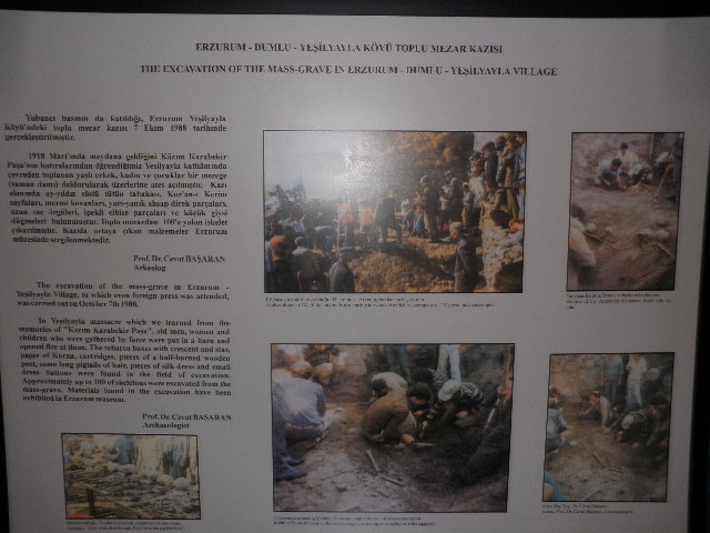 Igdir Massacre Monument and Museum, Turkey